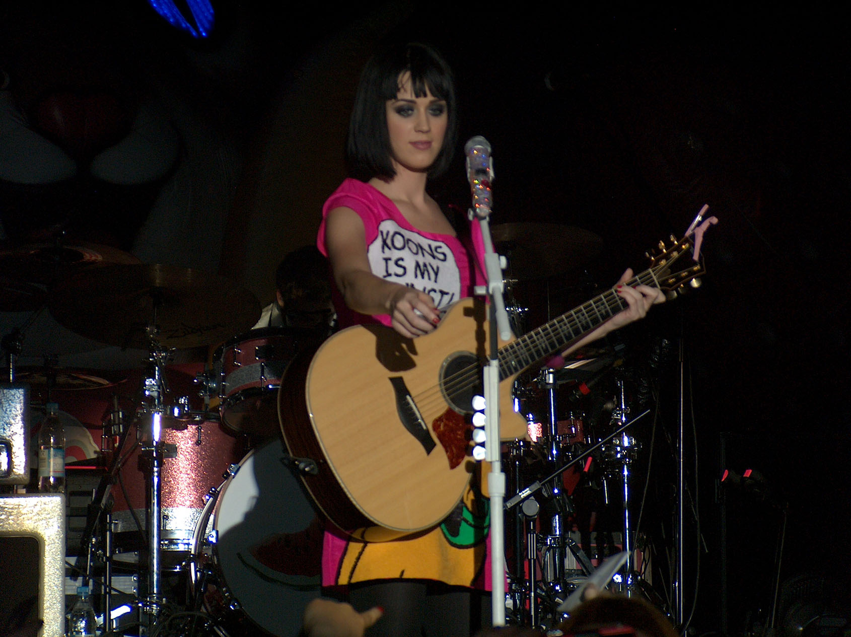 Katy Perry performing 2009-03-06 in Hamburg Germany